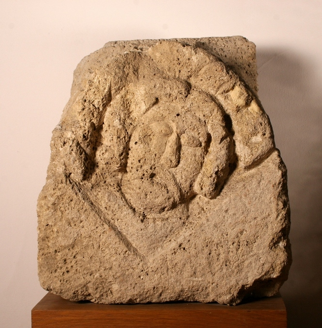 A Roman capital reused in the 15th century for the building of the Smederevo Fortress, exhibited in the Museum in Smederevo